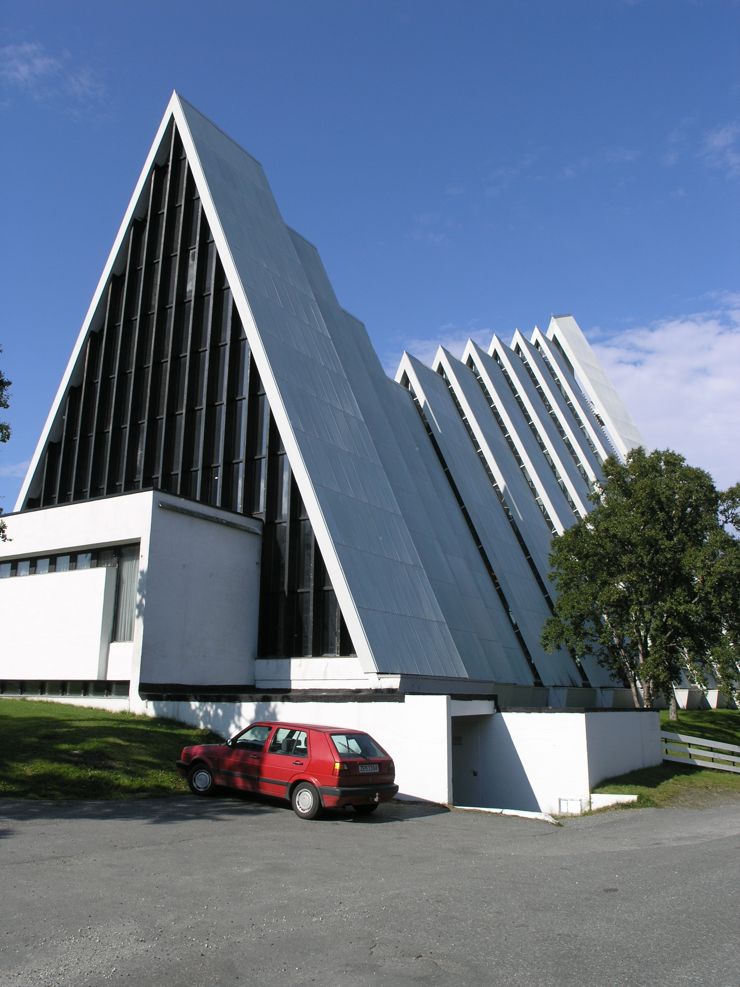 Church in Tromsö - Arctic Cathedral